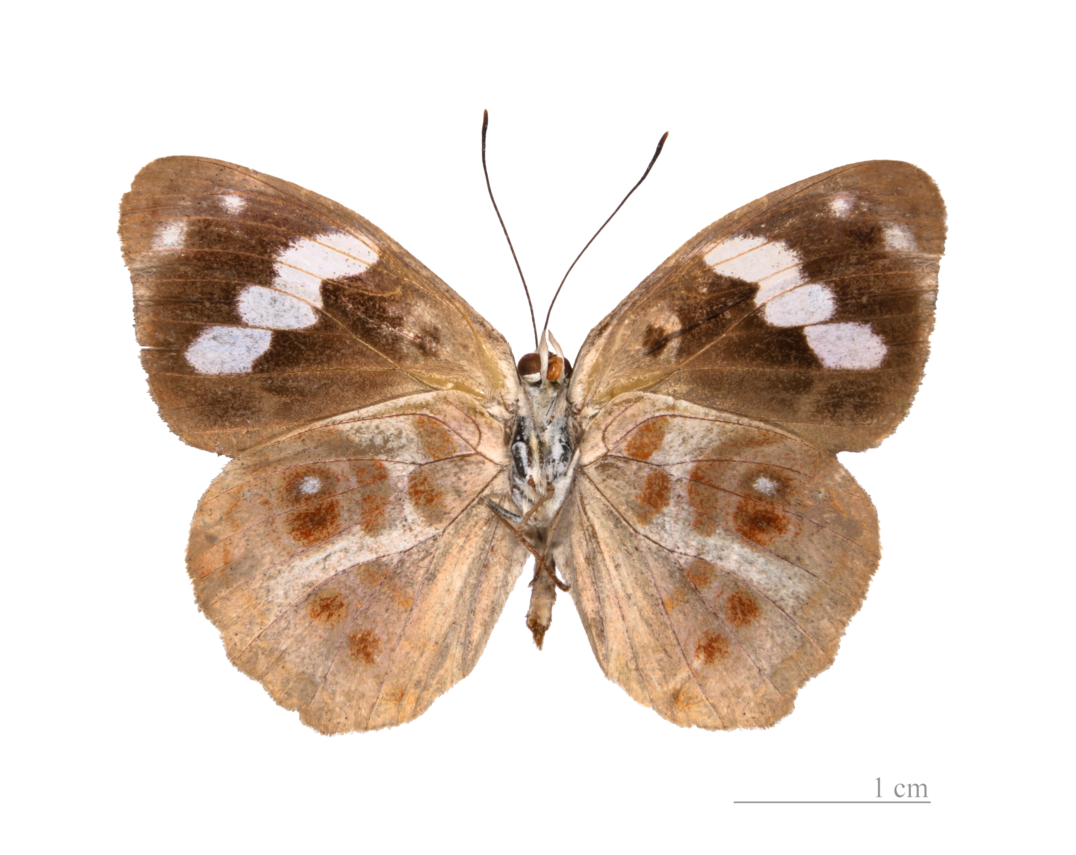 ♂ - △ Ventral side Locality : Kaw road, PK37 French Guiana.